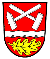 Coat of Arms of Sommerkahl